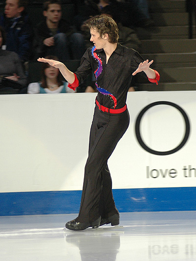 Jeremy Abbott skating in the exhibition gala at the United States Figure Skating Championships